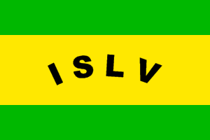 flag of the Society islands, own work